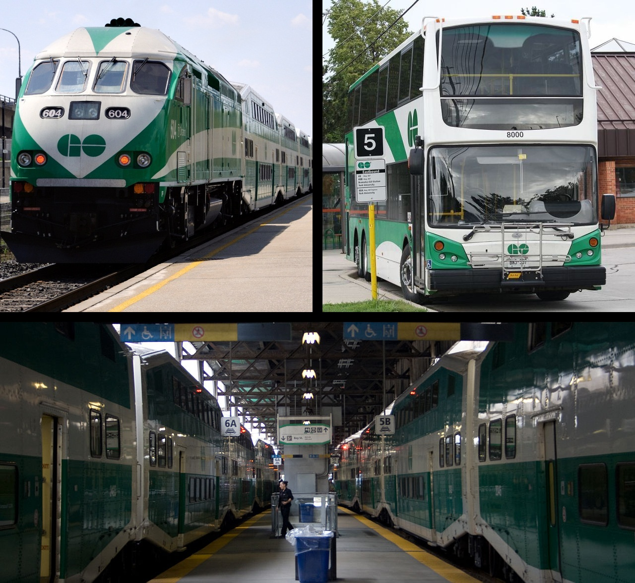 Three existing pictures from Wikimedia Commons pasted together to create a collage.